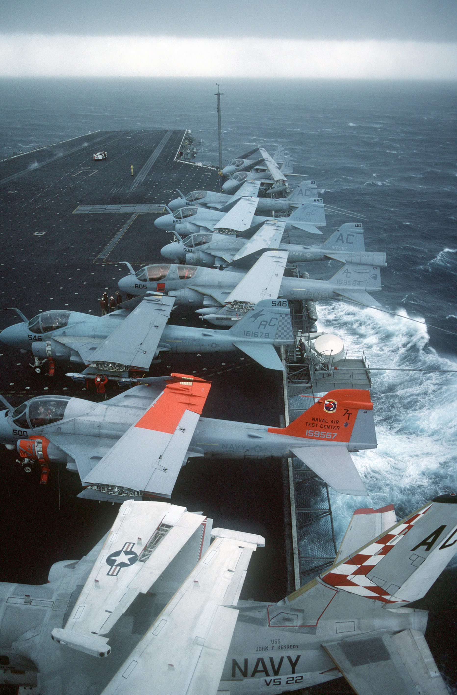 Several U.S. Navy aircraft from Carrier Air Wing 3 (CVW-3) aboard the aircraft carrier USS John F. Kennedy (CV-67) during a storm on 12 March 1986: (front to back) a Lockheed S-3A Viking from anti-submarine squadron VS-22 Checkmates, a Grumman A-6E Intruder (BuNo 159567) from the Naval Air Test Center, an A-6E from Marine attack squadron VMA (AW)-533 Hawks, a Grumman EA-6B Prowler from electronic countermeasures squadron VAQ-140 Patriots, two A-6Es from VA-75, the other A-6E from VMA (AW)-533 and another two A-6Es from VA-75.